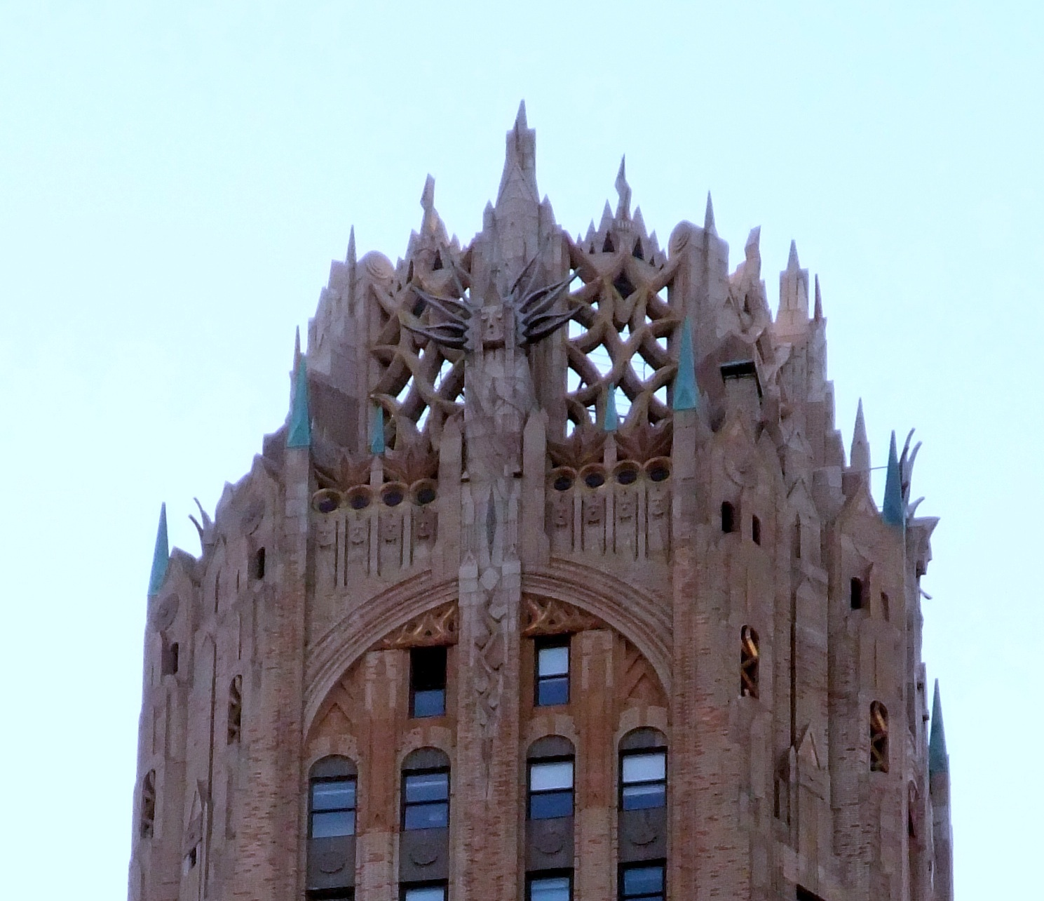 Art Deco crown of the General Electric Building, 51st Street & Lexington Avenue, New York City